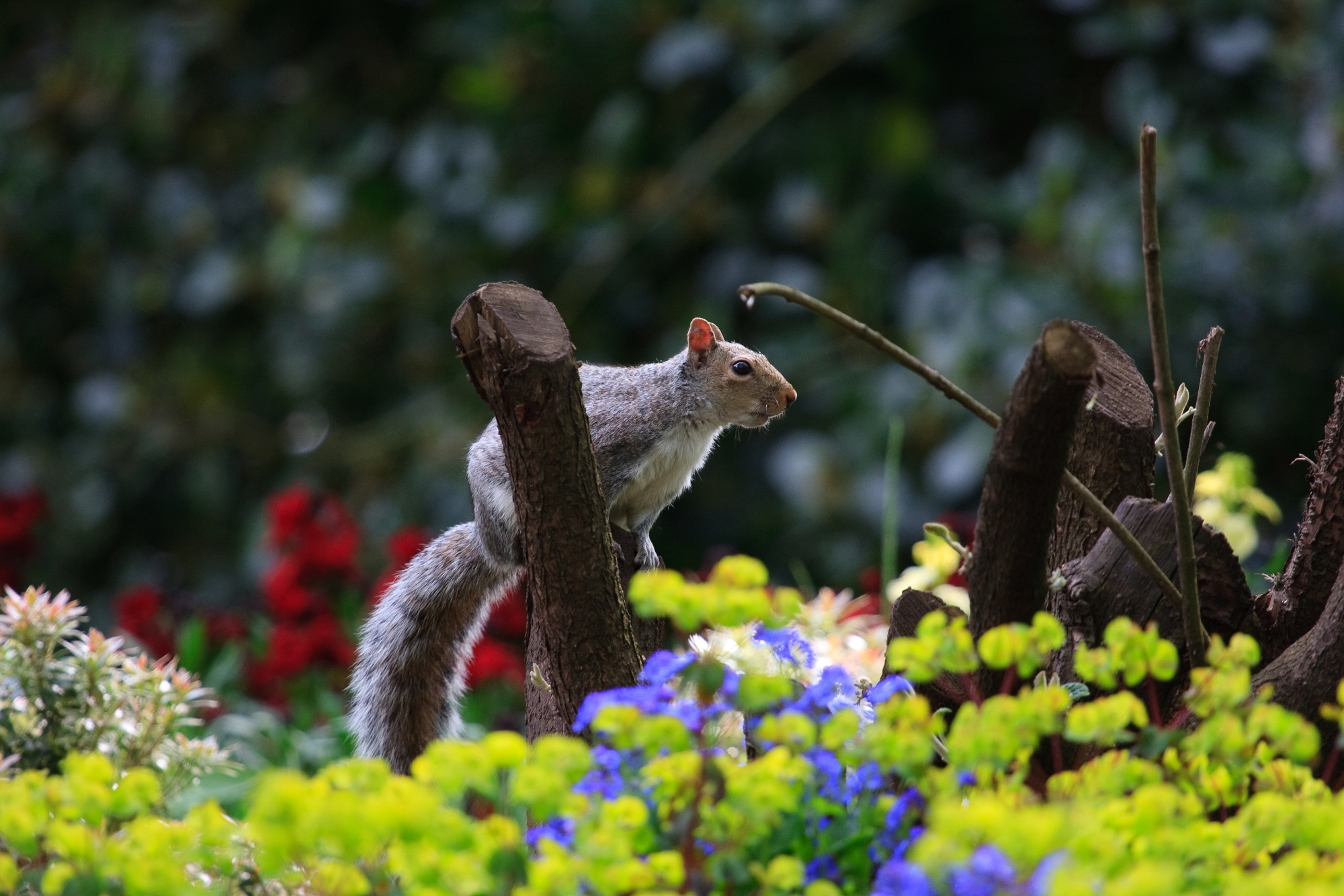 Squirrel taken in Hyde Park